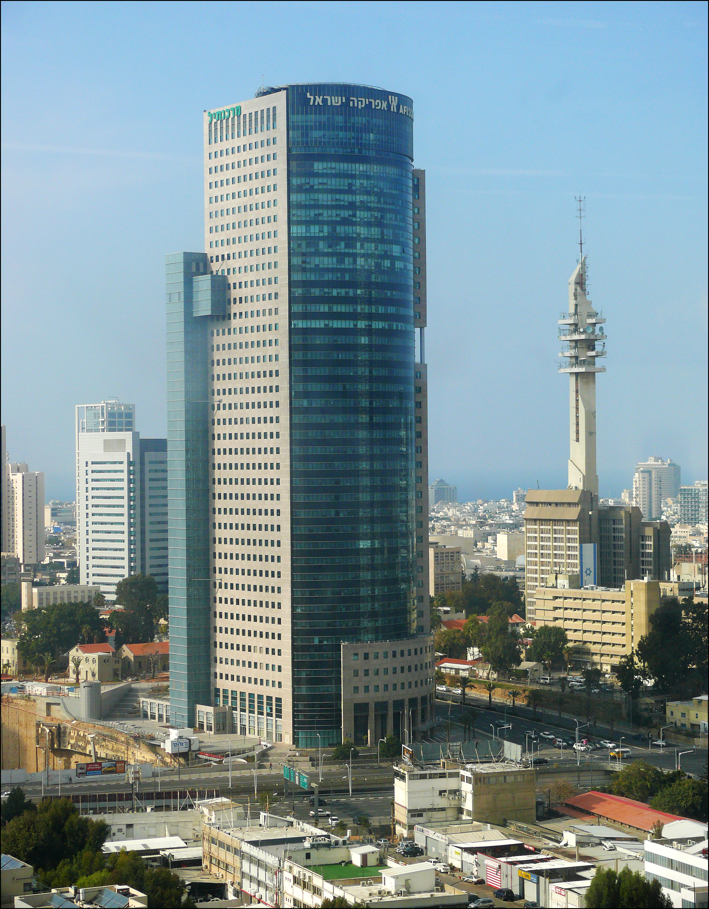 Migdal HaKiriya, Tel Aviv, Israel